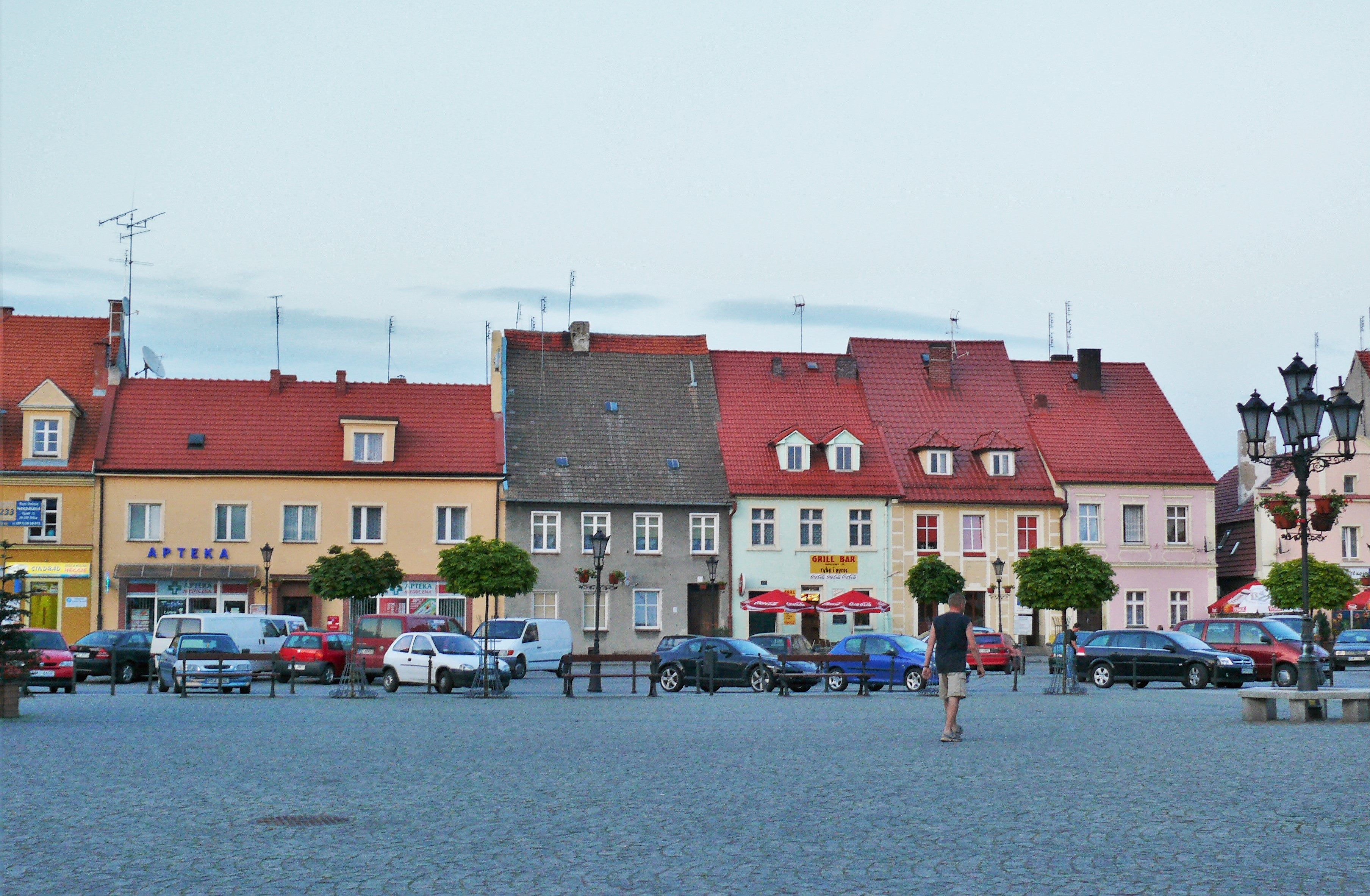 Milicz (Poland). Rynek.